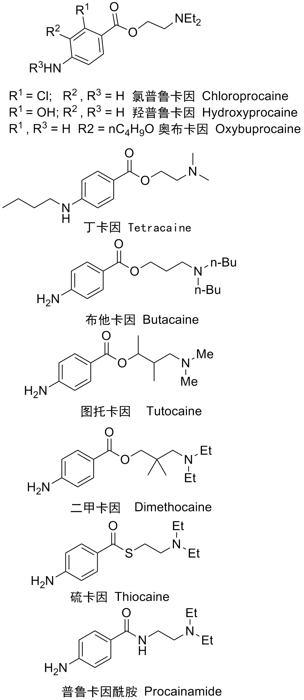 Analogs of 4-Aminobenzoic ester as local anesthetics